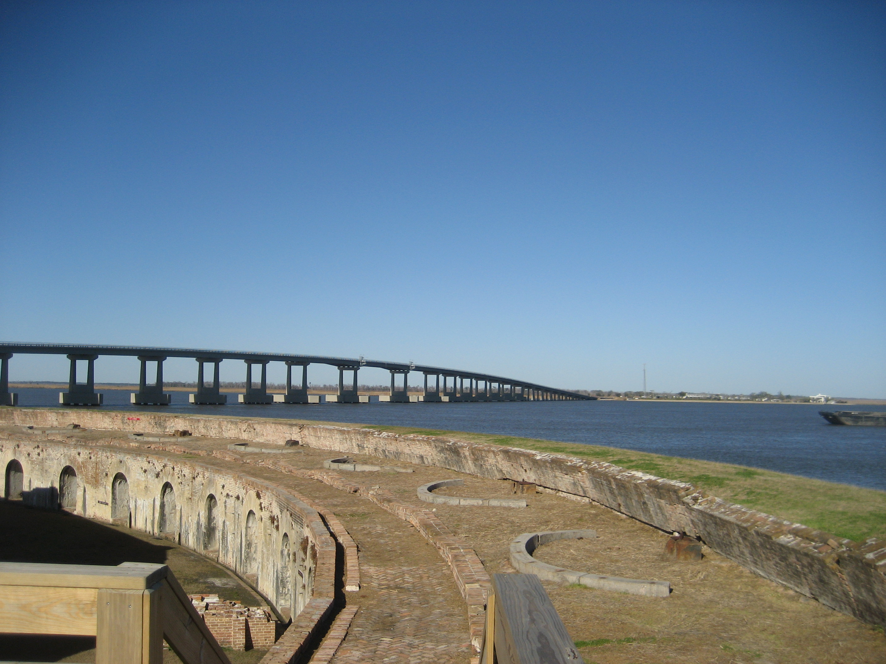 Historic Fort Pike, at the Rigoletts Pass, eastern edge of New Orleans